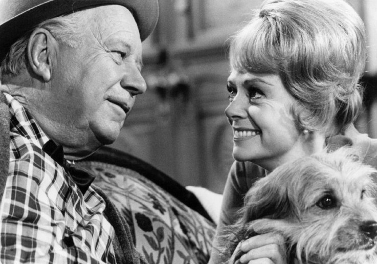 Photo of Edgar Buchanan as Uncle Joe, June Lockhart as Janet Craig and Higgins (dog) from the television program Petticoat Junction.